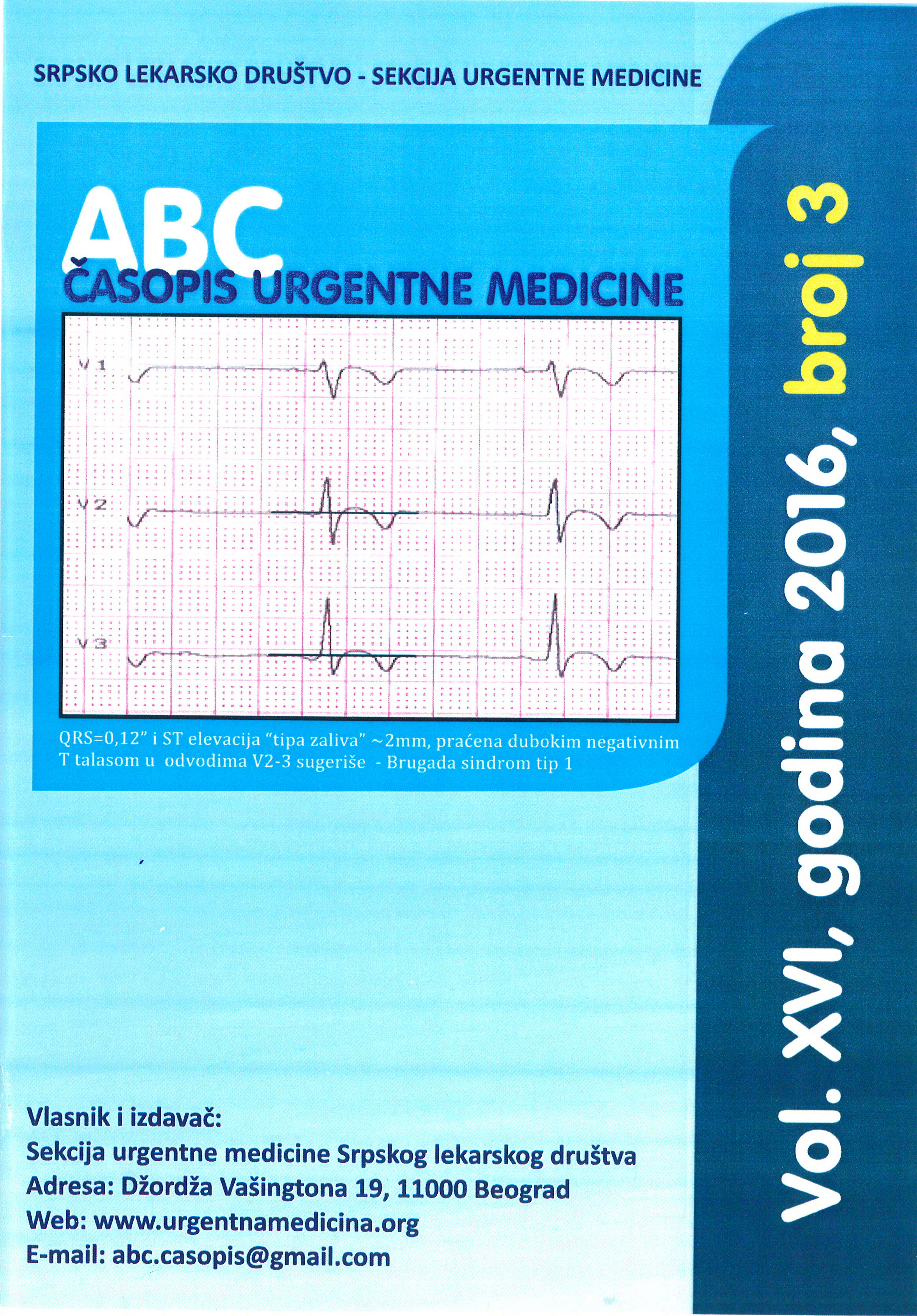 Cover ABC casopis urgentne medicine, Belgrade, Serbia, 2016.